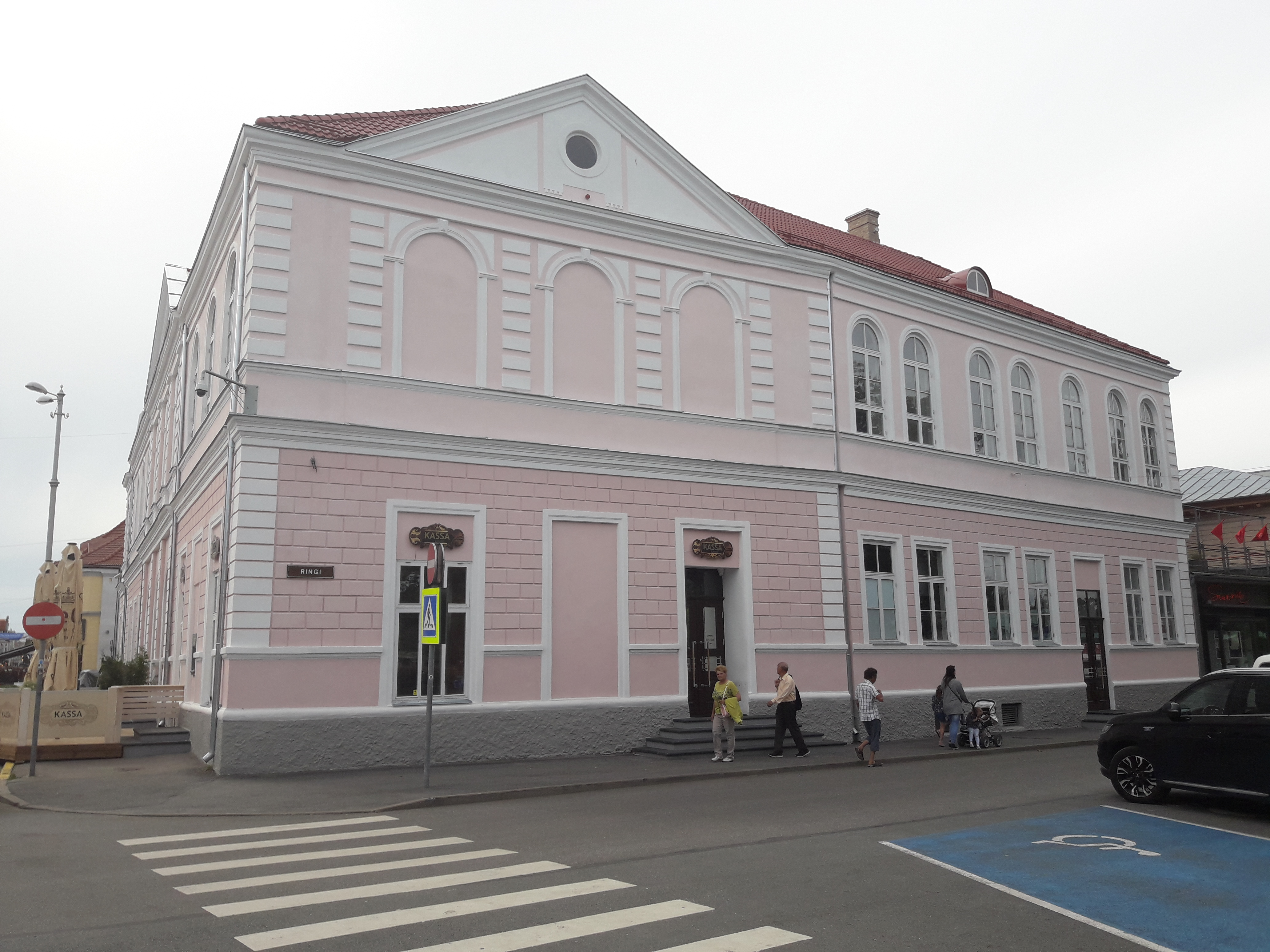 Rüütli 40, Pärnu